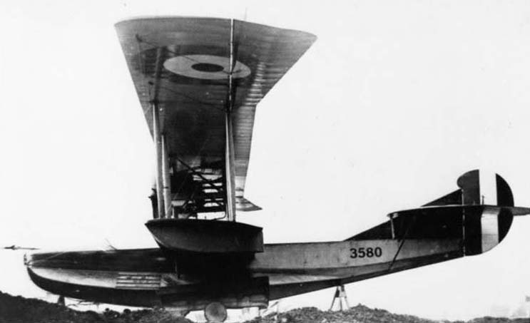 Photograph of Curtiss America (3580), prototype Felixstowe F.1 flying-boat.